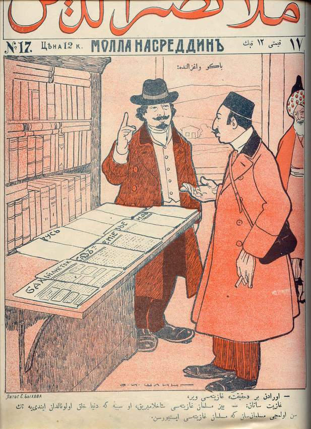 TOP: Baku Train Station; Client: "Do you have Haqiqat newspaper?" Salesperson: "We don’t have any Muslim papers. For the following reason: since the creation of the world, you are the first person to ever ask for a Muslim paper." Transalation from